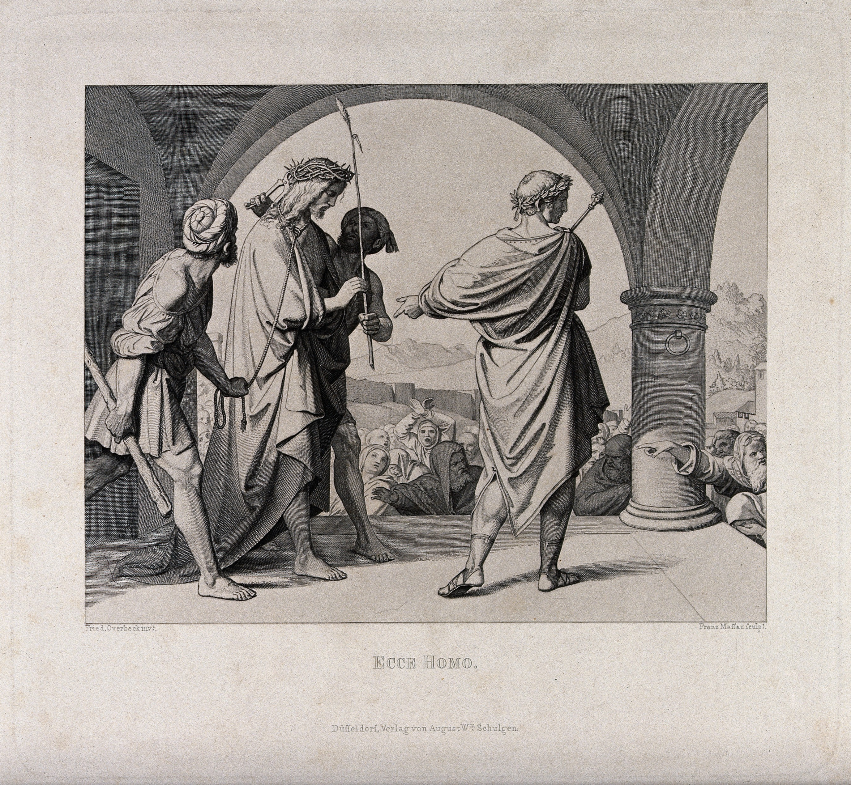 Christ is paraded before the people wearing a crown of thorns. Etching by F.P. Massau after J.F. Overbeck, 1848. Iconographic Collections Keywords: Franz Paul Massau; Jesus Christ; Johann Friedrich Overbeck; Pontius Pilate